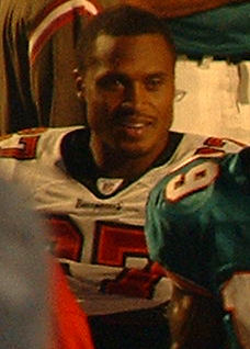 If used somewhere other than Wikipedia, Nelson, by name.